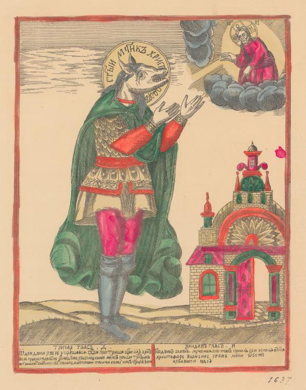 Saint Christopher, represented with a wolf's head. Russian lubok.